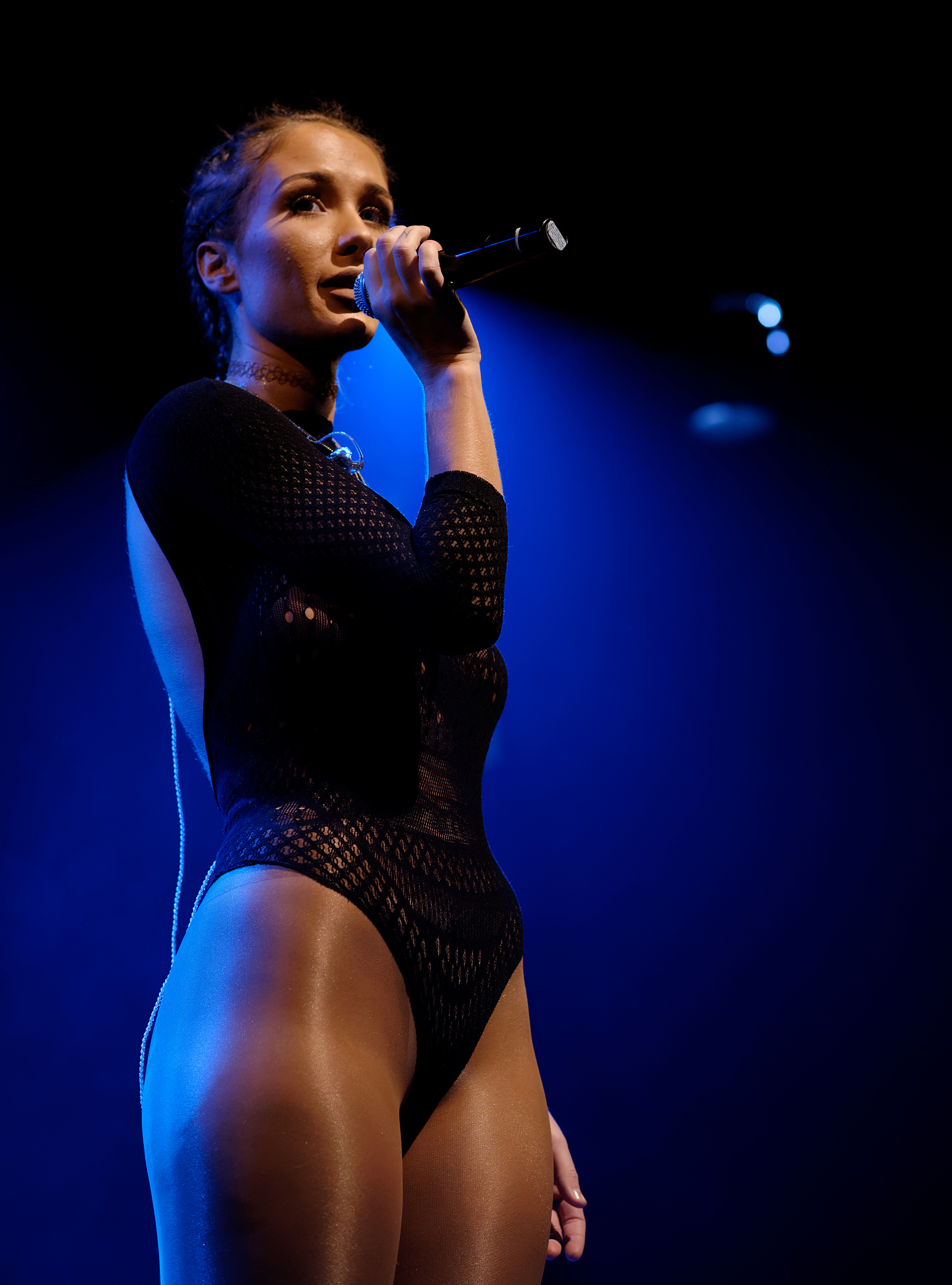 Niykee Heaton performing at the El Rey Theatre on December 18, 2015 as part of The Bedroom Tour.